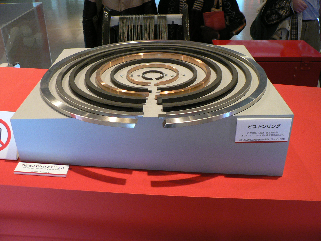 Piston rings for Internal combution engines by Hoshino Piston Ring.